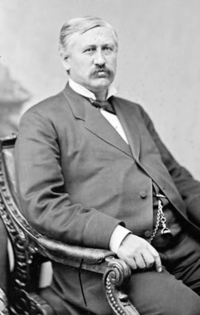 George Whitman Hendee, Governor of Vermont